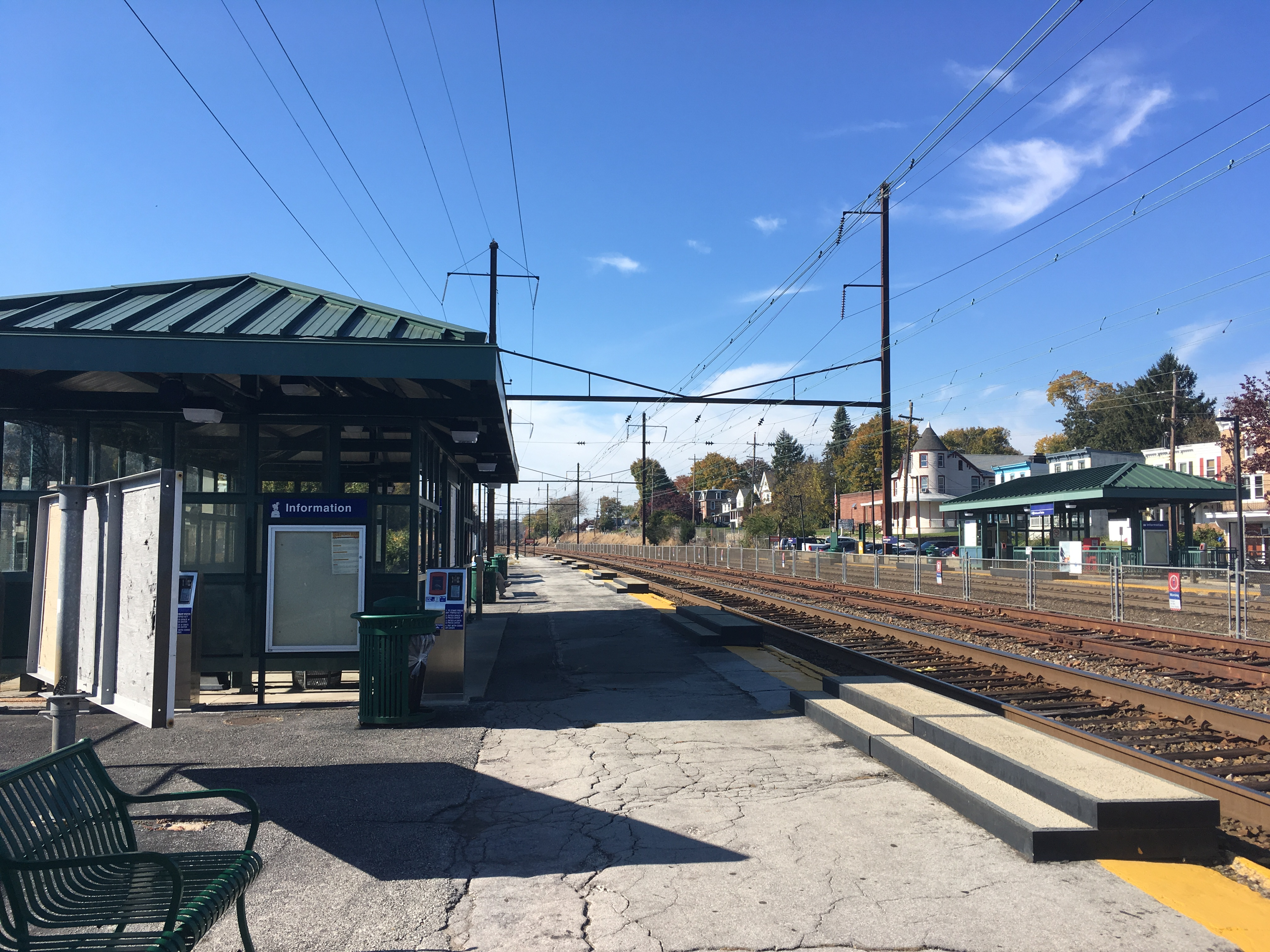 The Downingtown station on SEPTA’s Paoli/Thorndale Line and Amtrak’s Keystone Corridor in Downingtown, Pennsylvania viewed from the inbound platform